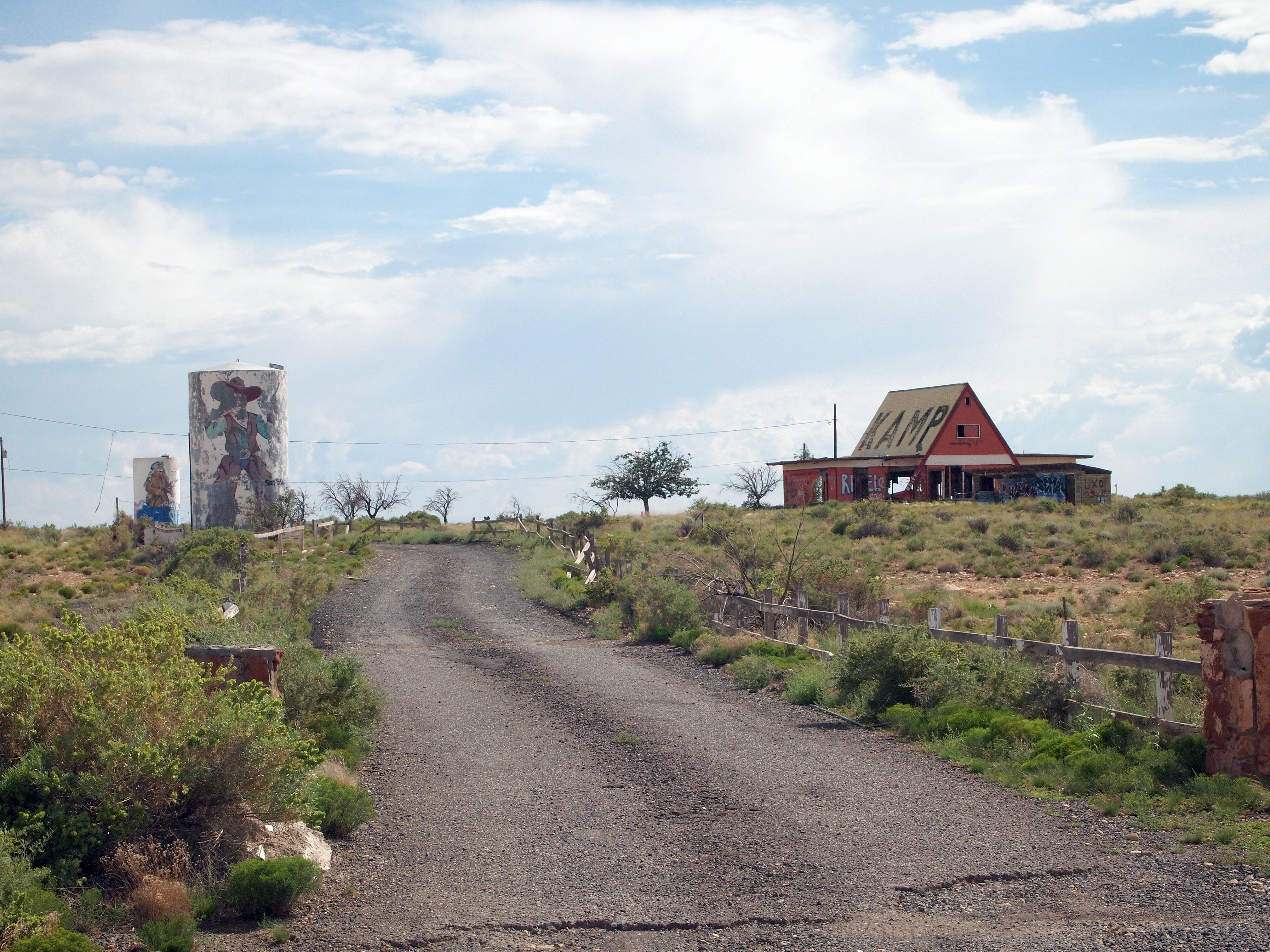 Ruins of the 20th century structures in Two Guns, Arizona.